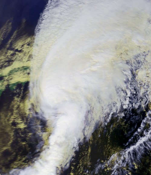 Severe Tropical Storm Faxai on October 27 at approximately 0324 UTC. This image was produced from data from NOAA-18, provided by NOAA.